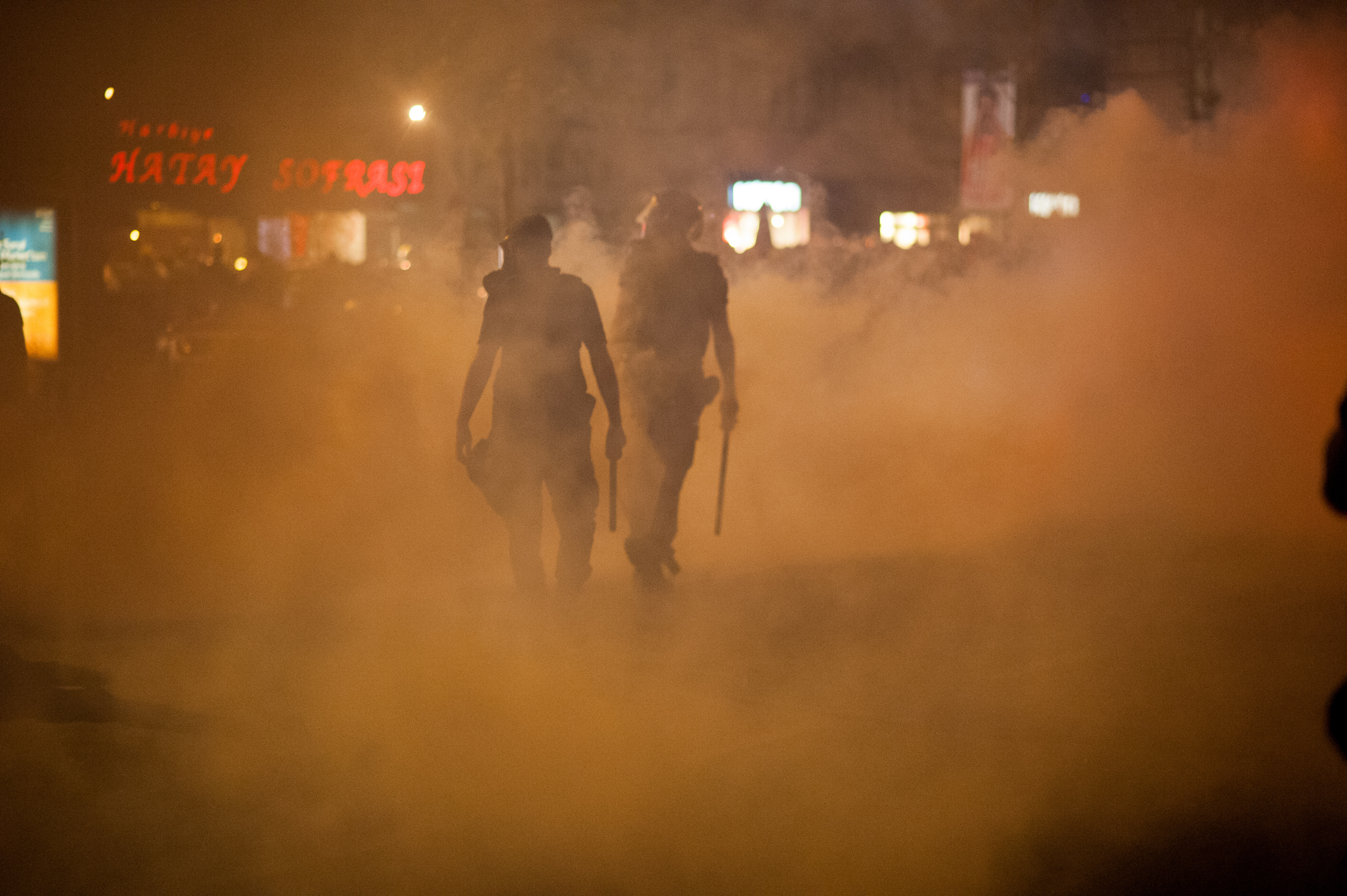 Police action during Gezi park protests in Istanbul. Events of June 16, 2013.